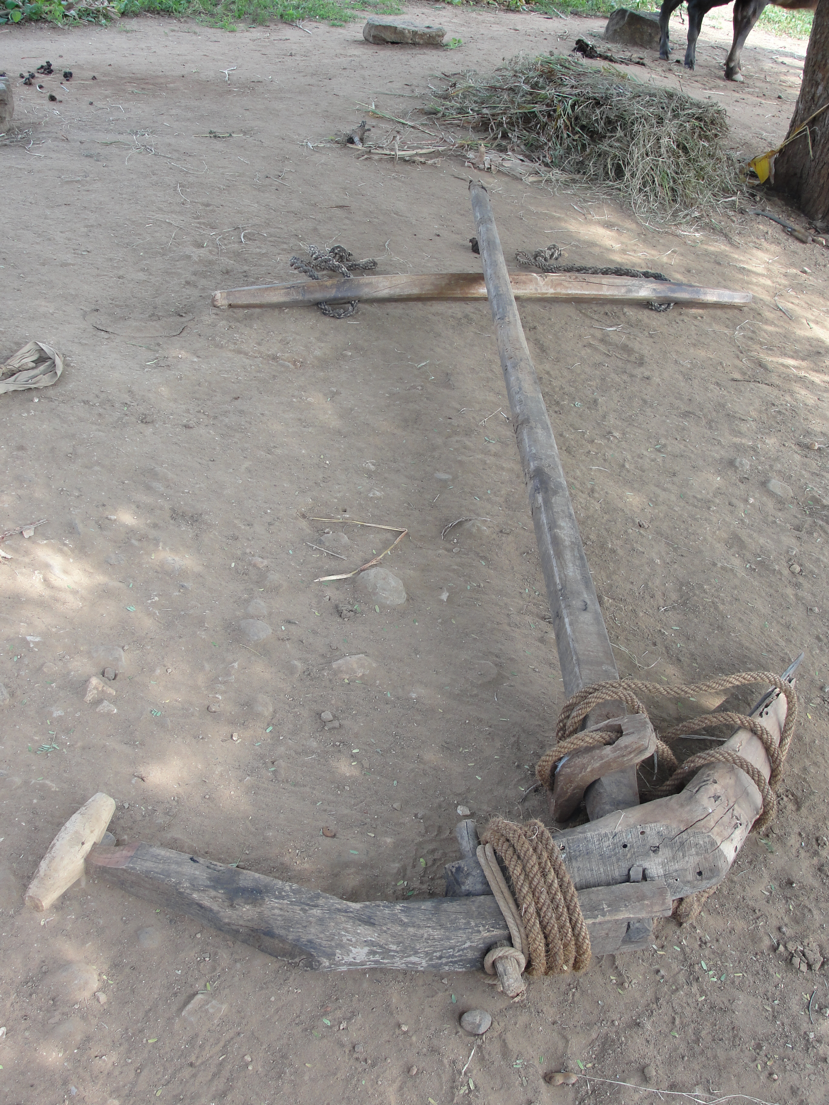 A Plough used by Tamils for ploughing